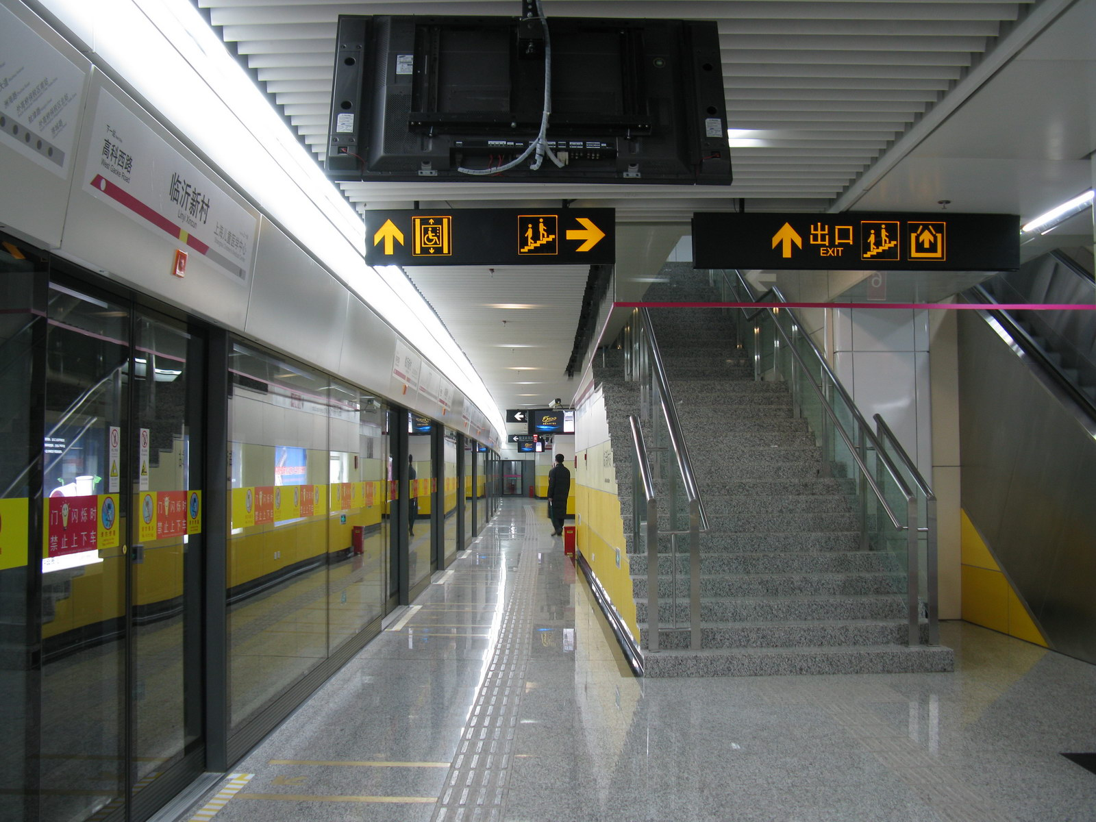 临沂新村站 6号线月台 Line 6 Platform of Linyi Xincun Station